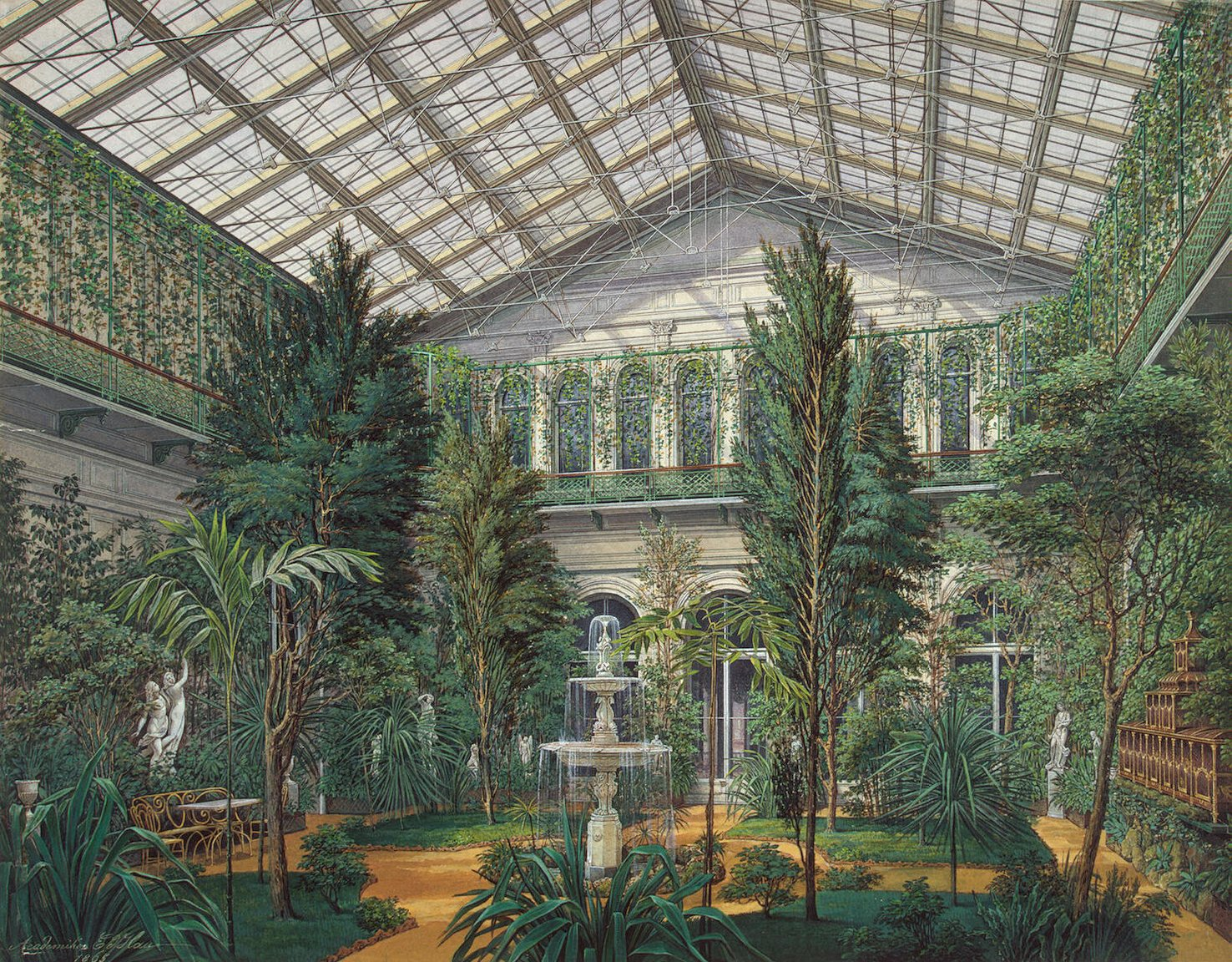 Interiors of the Small Hermitage. The Winter Garden